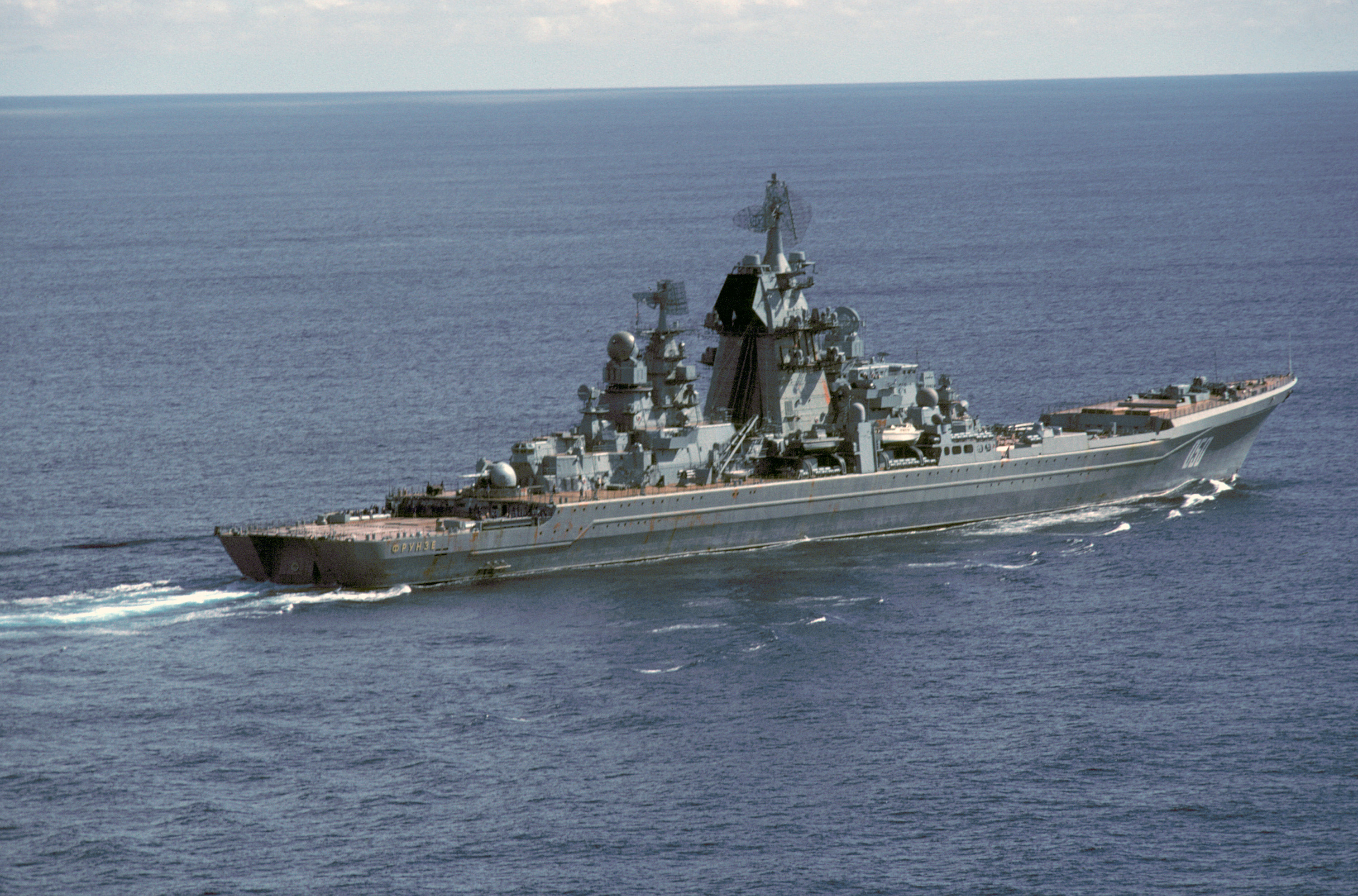 Released to PublicID: DN-ST-86-01033Service Depicted: Other ServiceAerial starboard quarter view of the Soviet Kirov class guided missile destroyer FRUNZE underway. (SUBSTANDARD)